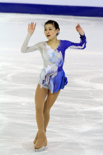 2010 World Junior Figure Skating Championships - Kanako Murakami